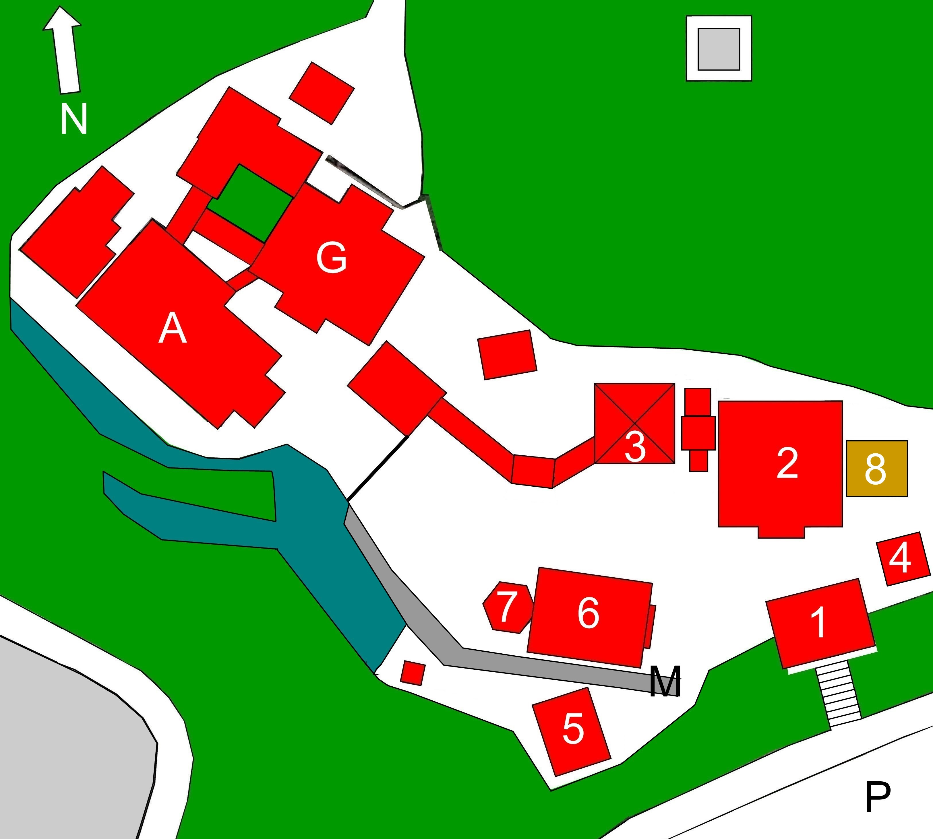 Layout of Amabiki Kannon (Rakuhō-ji) at Sakuragawa, Chiba prefecture, Japan